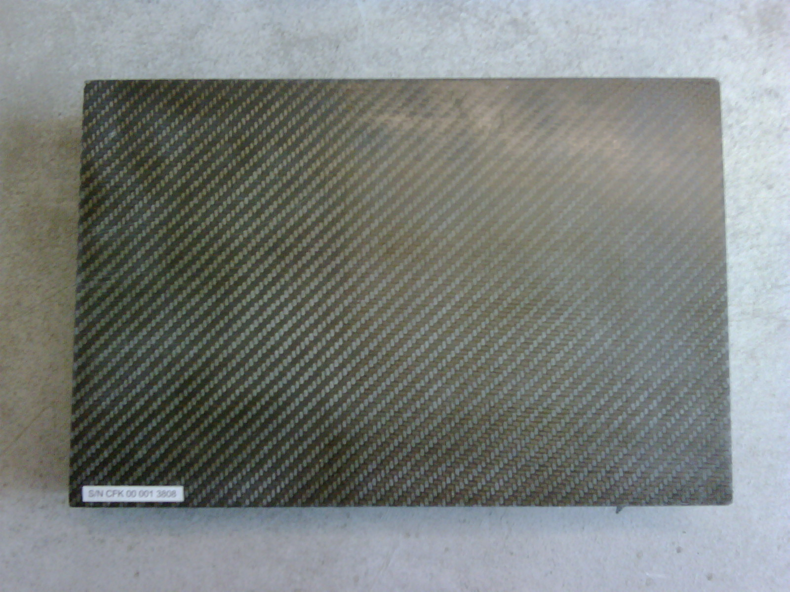 Steinbichler_Shearography_Honeycomb with CFRP Top Layer_Artificial failures that simulate layer- core delaminations_Material Top view